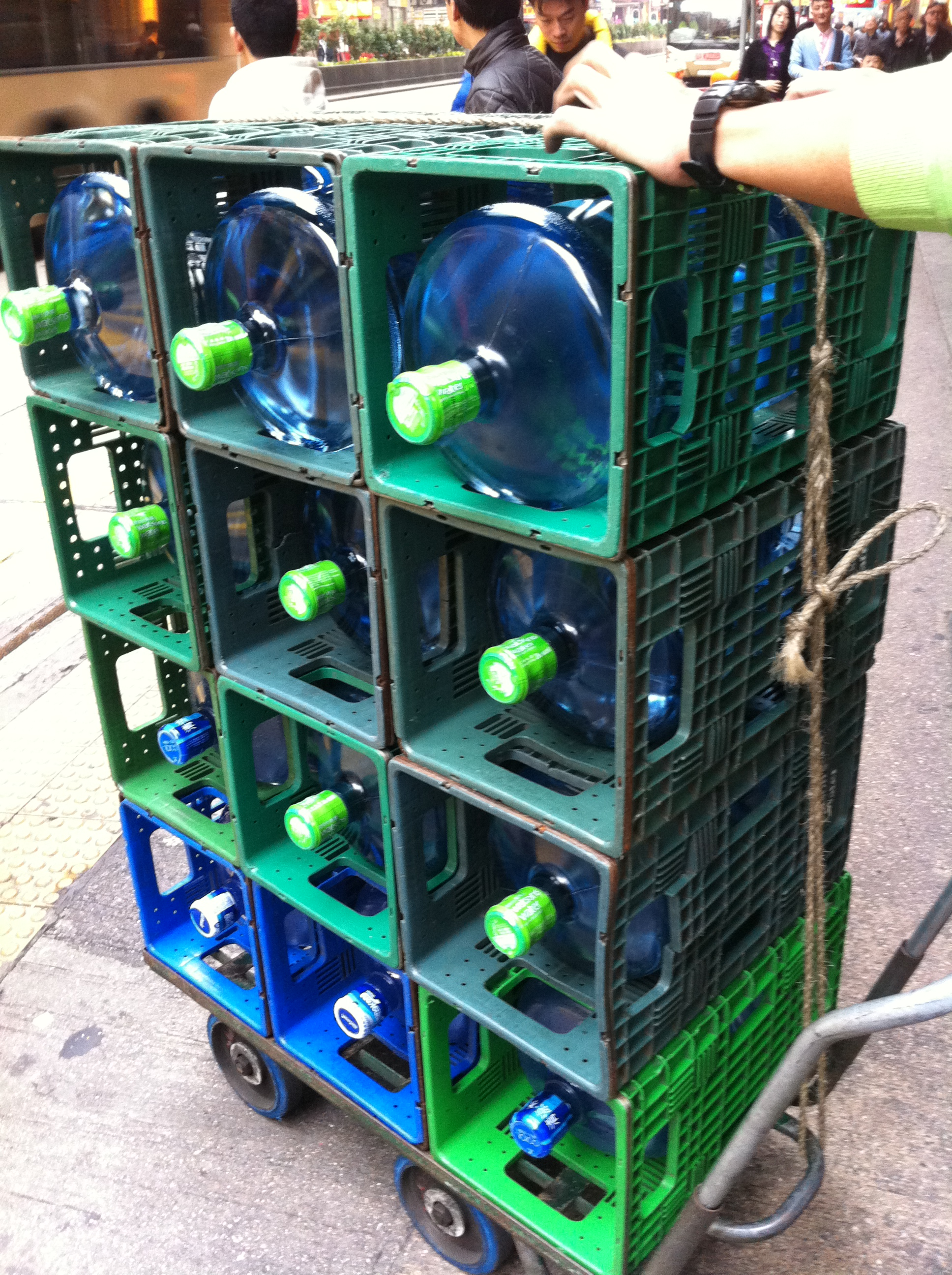 Logistics of Watsons distilled water 12 bottles, Yau Ma Tei Nathan Road, Kowloon.